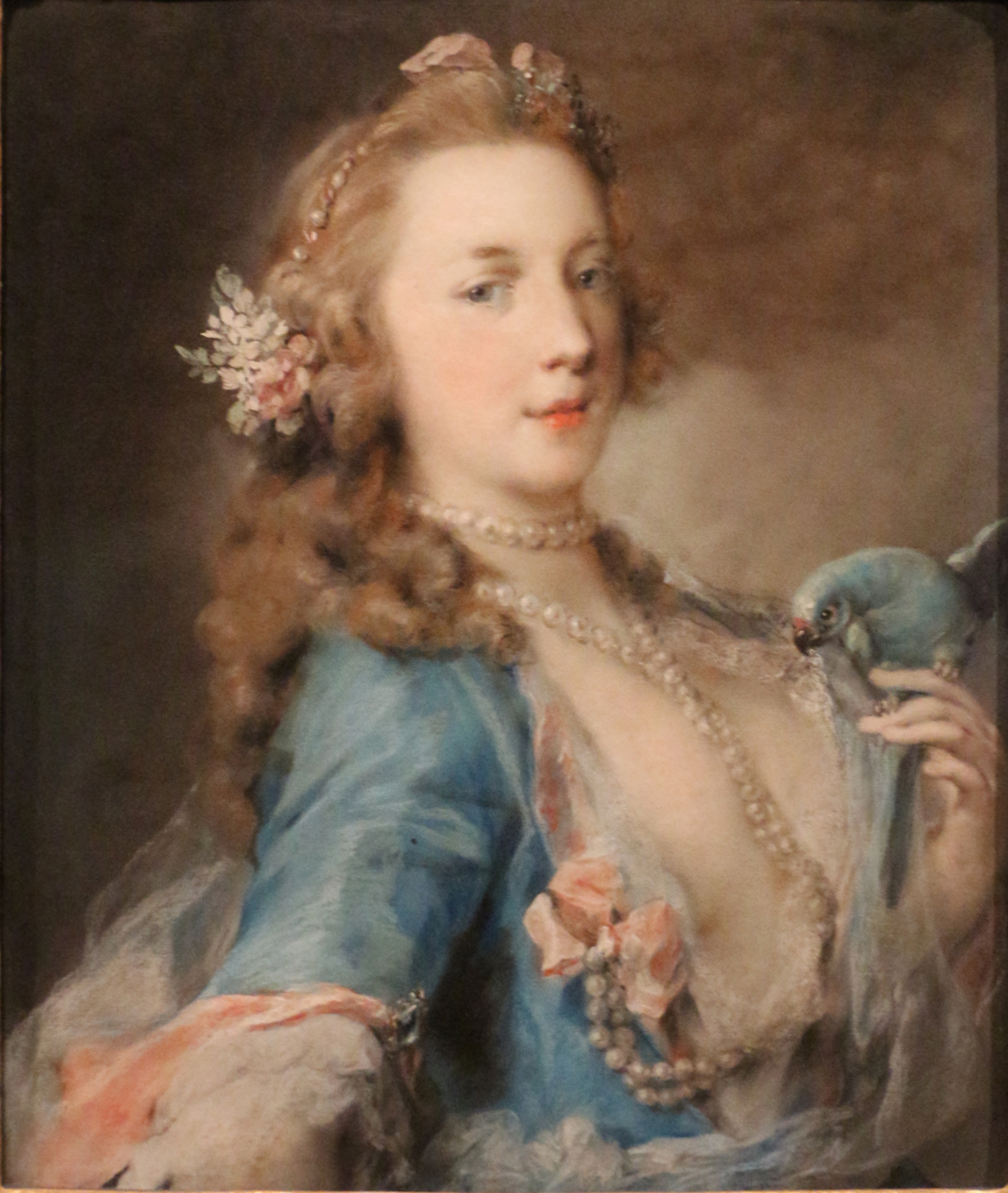 Italian paintings in the Art Institute of Chicago